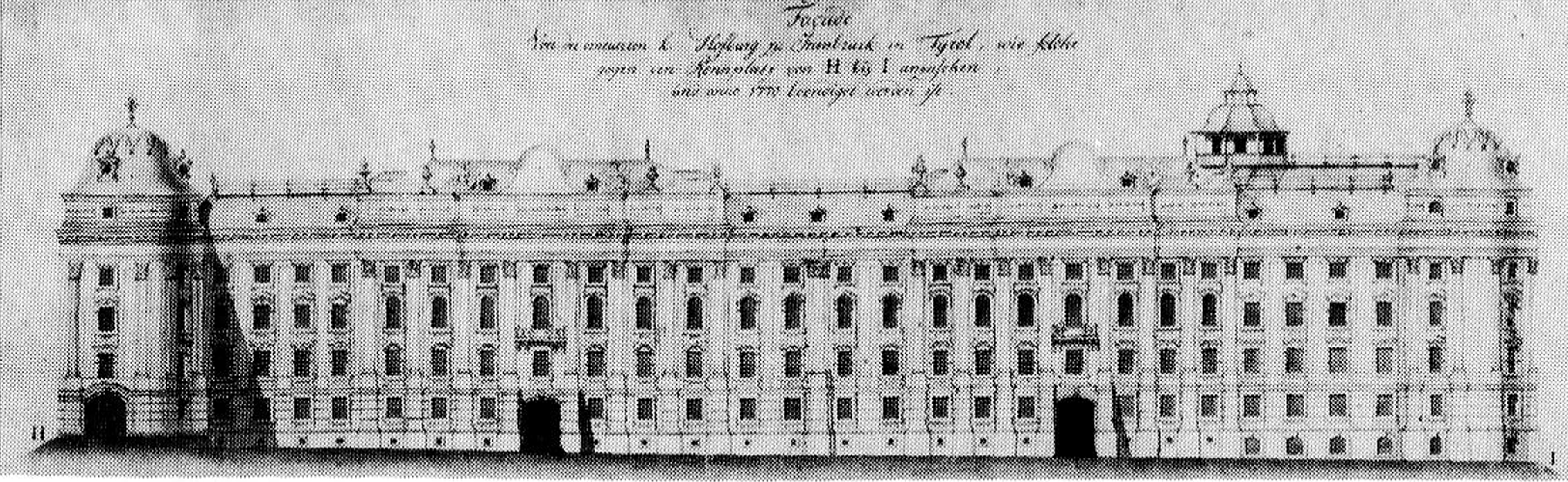 The Hofburg, Innsbruck after its Baroque reconstruction in 1770